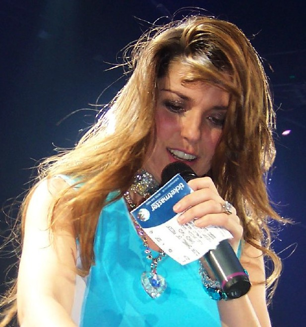 Shania Twain Image cropped and enhanced